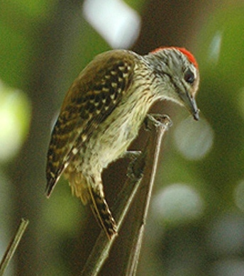 A Cardinal Woodpecker in Uganda. Note the unbarred mantle of this race, which ranges from e Zaire to Uganda, the Ethiopian highlands, w & c Kenya, Rwanda and nw Tanzania.